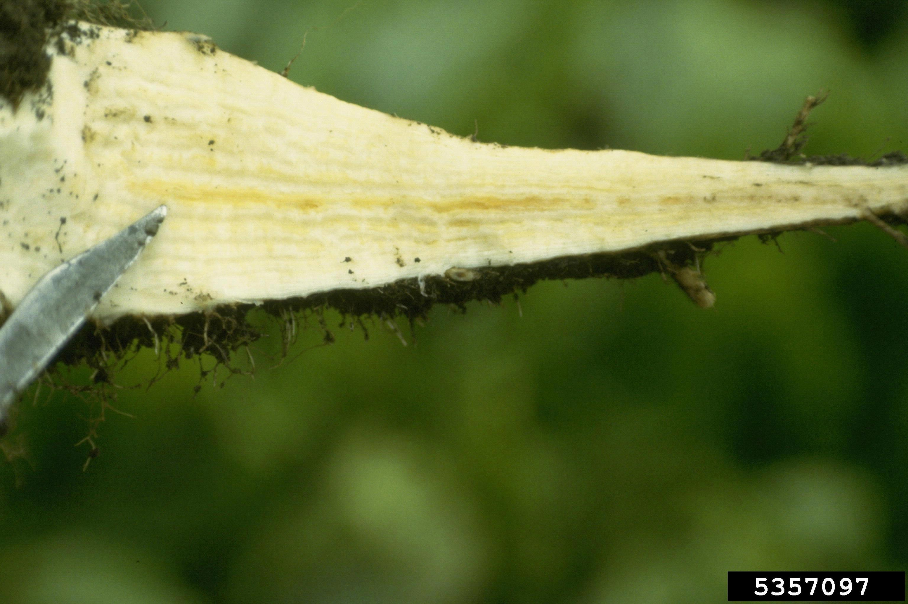 Sugar beet sliced open to show vascular discoloration characteristic of Rhizomania, caused by Beet Necrotic Yellow Vein Virus (BNYVV), vectored by the soilborne fungus Polmyxa betae.